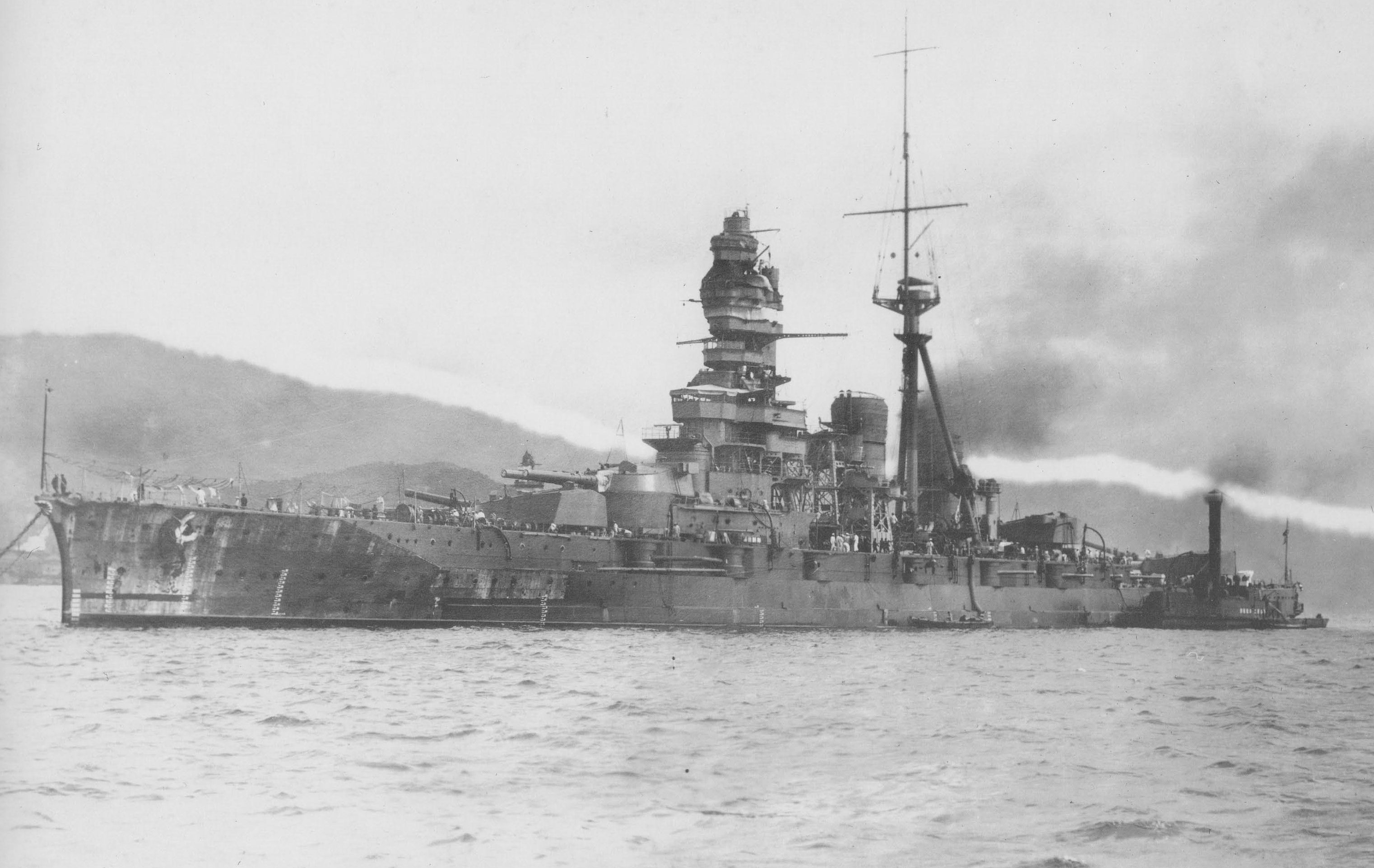 Imperial Japanese Navy battleship Kirishima at Kure, Japan